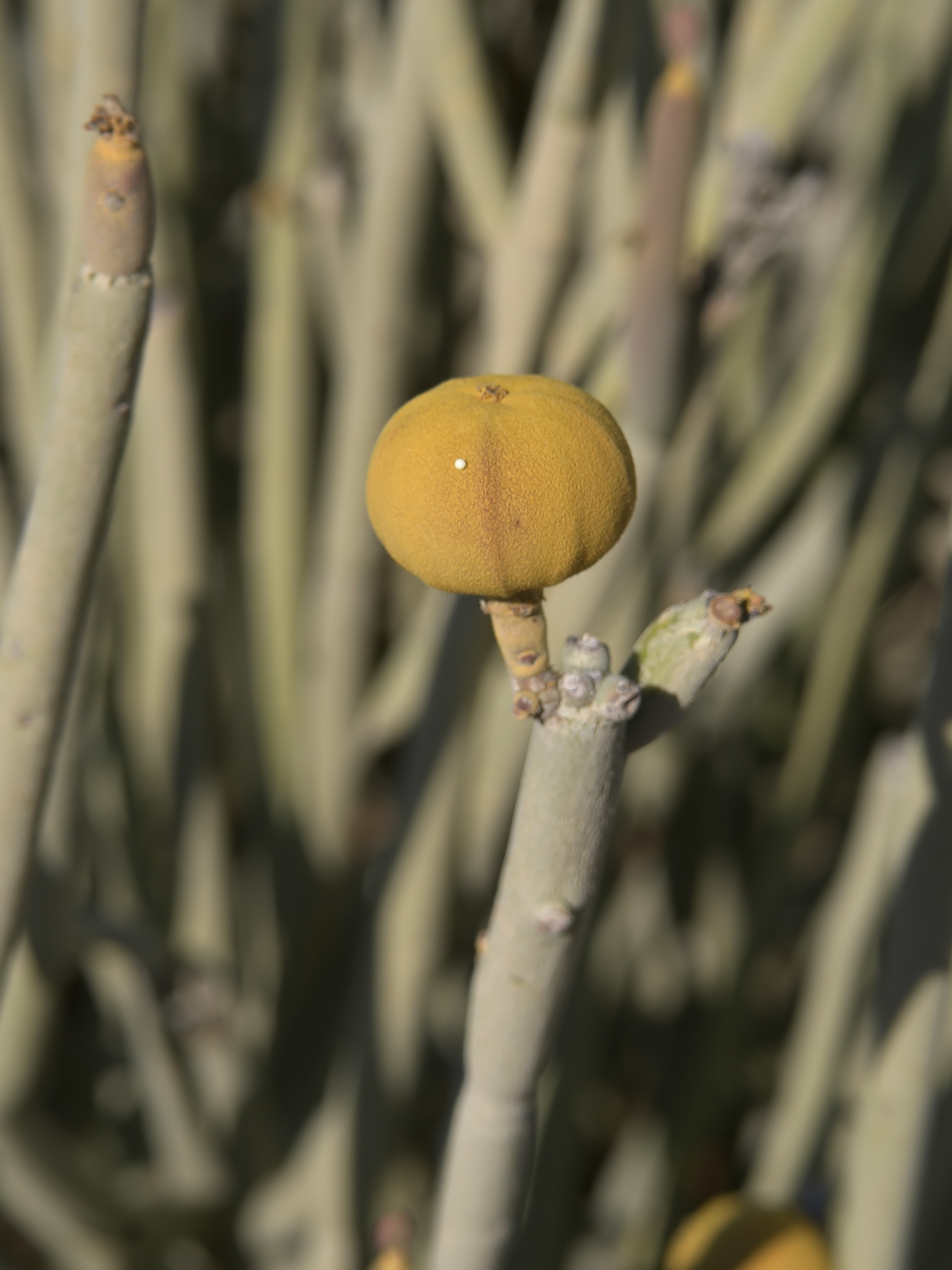 Fruit of a Damara Euphorbia, an endemic Euphorbia, listed in CITES Appendix II. Close to Palmwag, Namibia